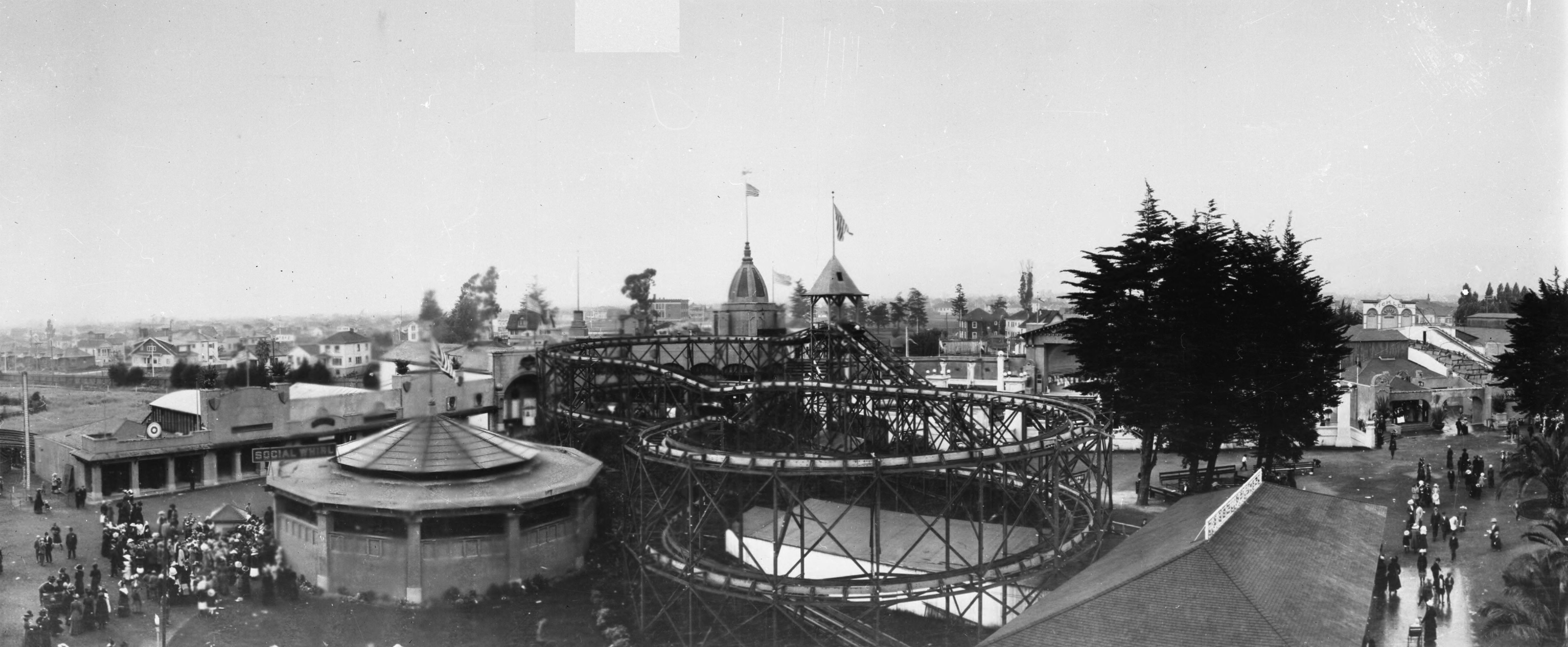 The photograph includes a general view of Idora Park, made from an elevated position. From the Joseph R. Knowland collection at the Oakland History Room, Oakland Public Library. Number in collection : 228.